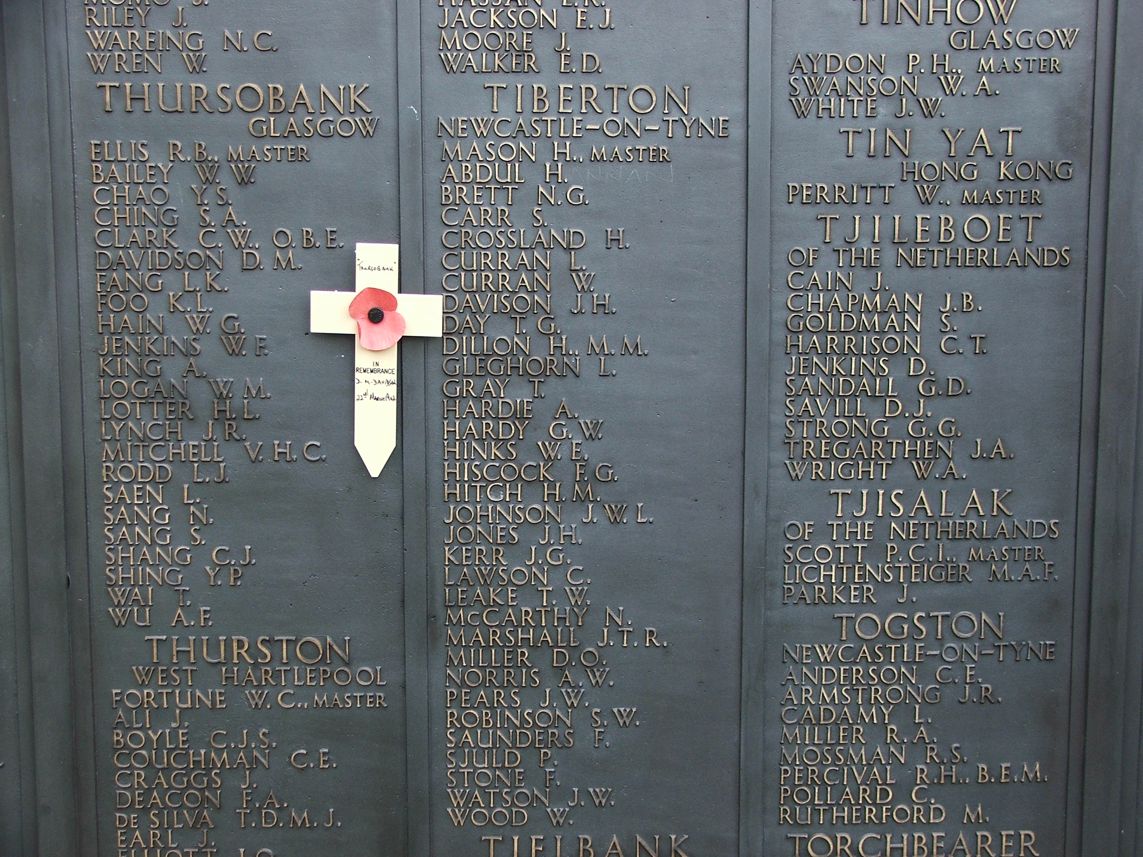 I took this photo.